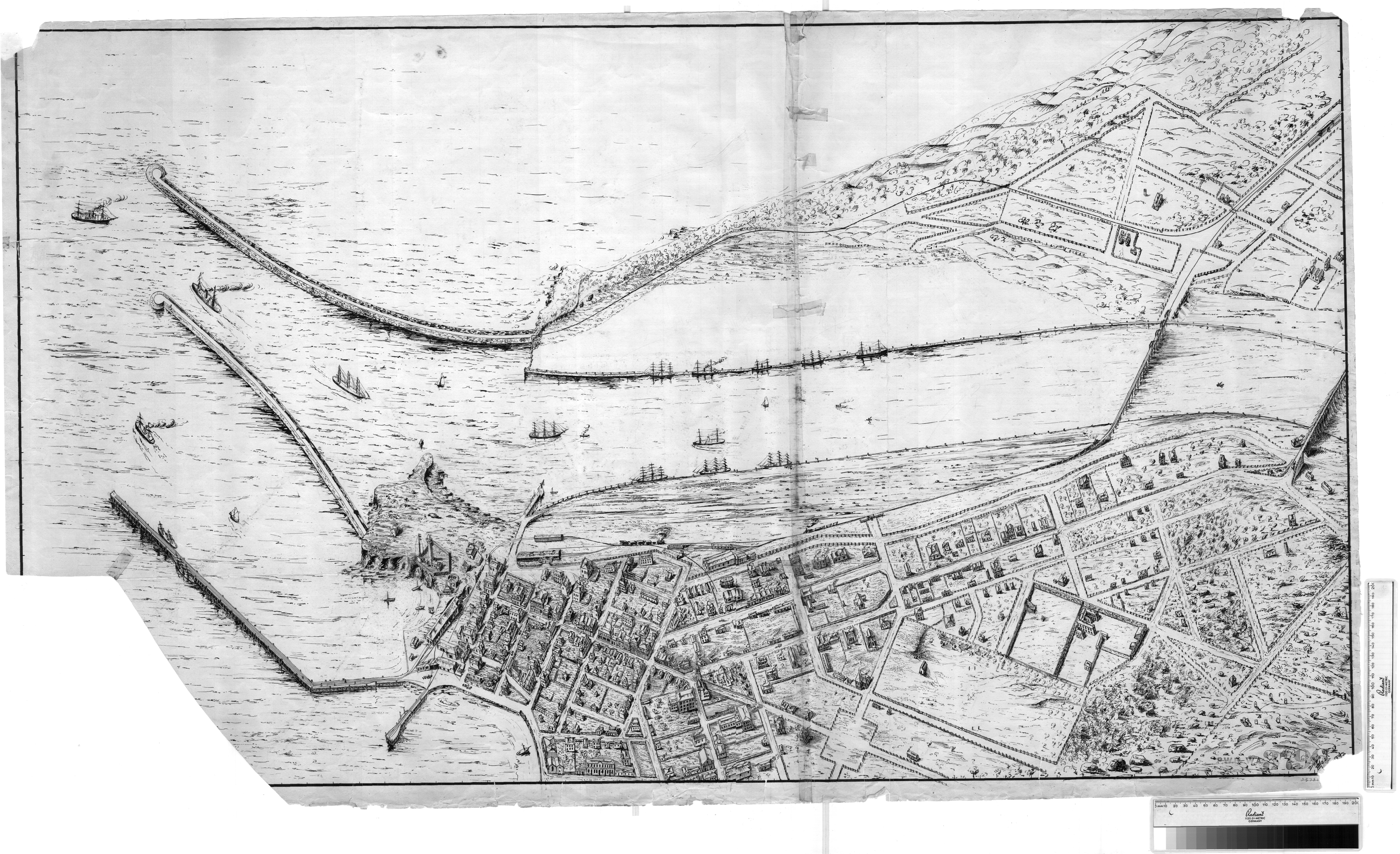 1894 Plan for Fremantle Harbour by C.Meek